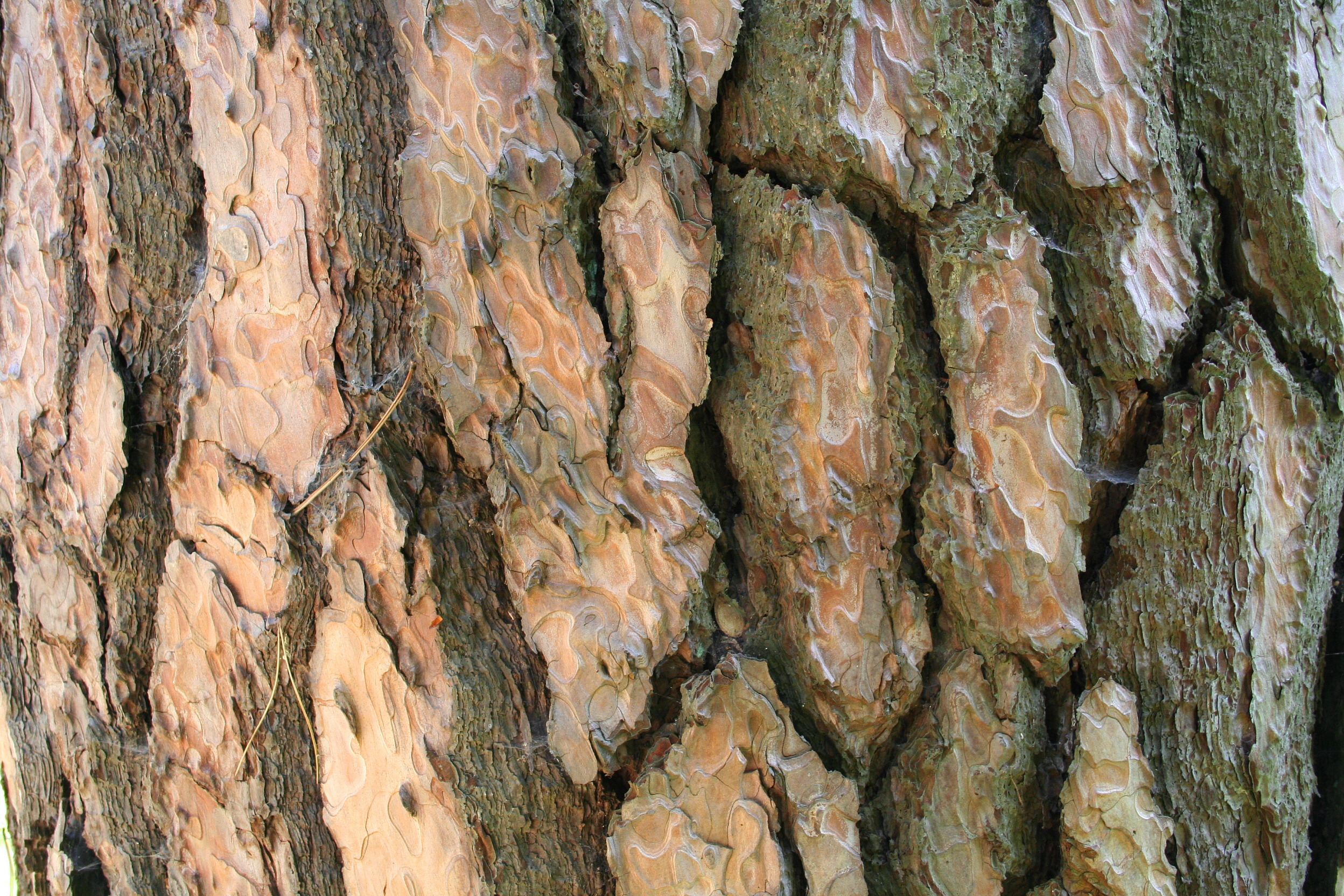 Bark of an Austrian Pine.